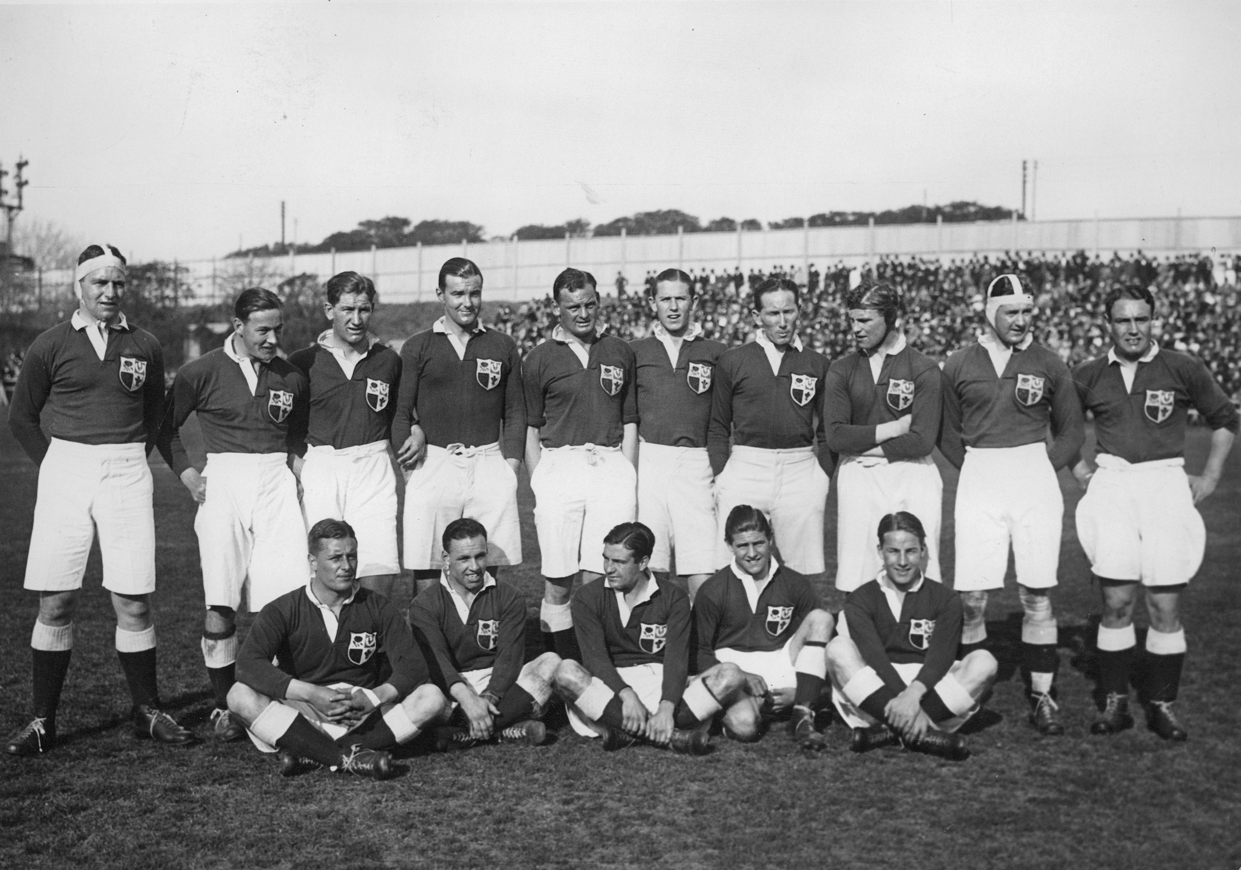 The British Lions team before playing the 4th. test vs. Argentina at GEBA stadium, Buenos Aires. The Lions won 43-0.